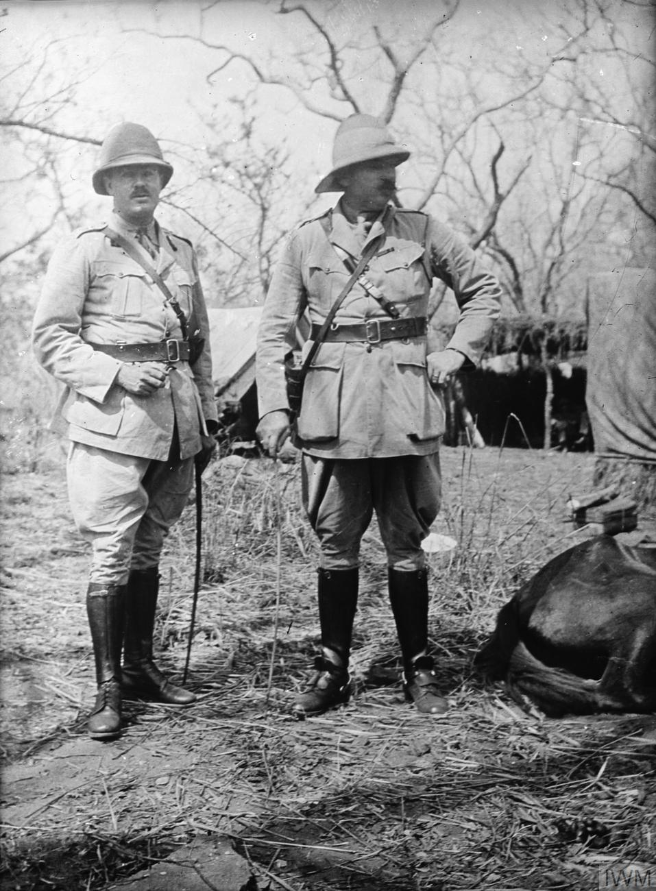 Ministry of Information First World War Official Collection German East African Campaign. Lieutenant-General Sir Jacob Louis van Deventer KCB CMG DTD (right), Commander-In-Chief East African Field Force, and Brigadier-General Seymour Hulbert Sheppard CB CMG DSO (left), Chief-of-Staff East African Field Force (German East Africa, July 1917 - 1918)[1]